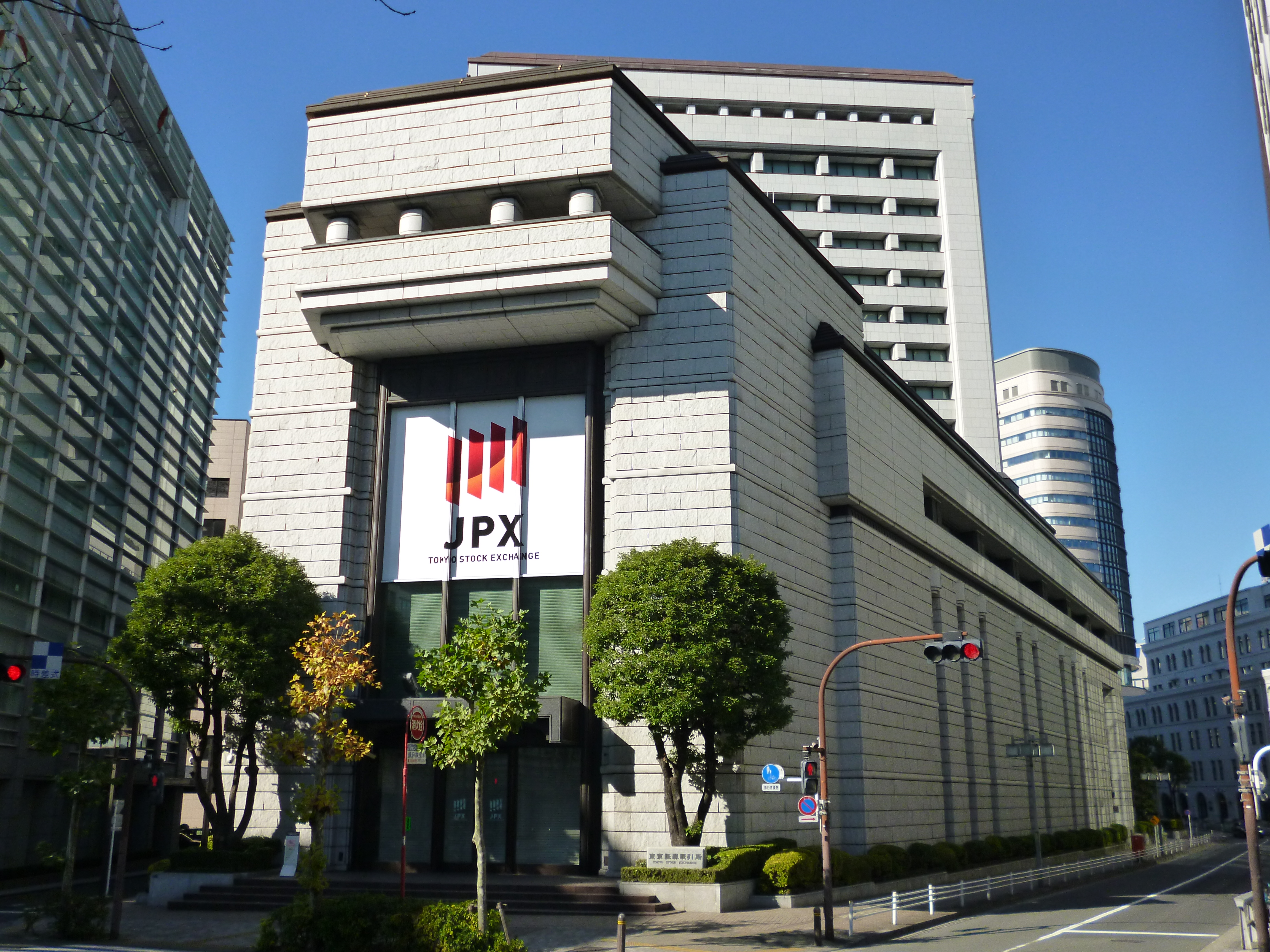 Tokyo Stock Exchange in Tokyo, Japan.